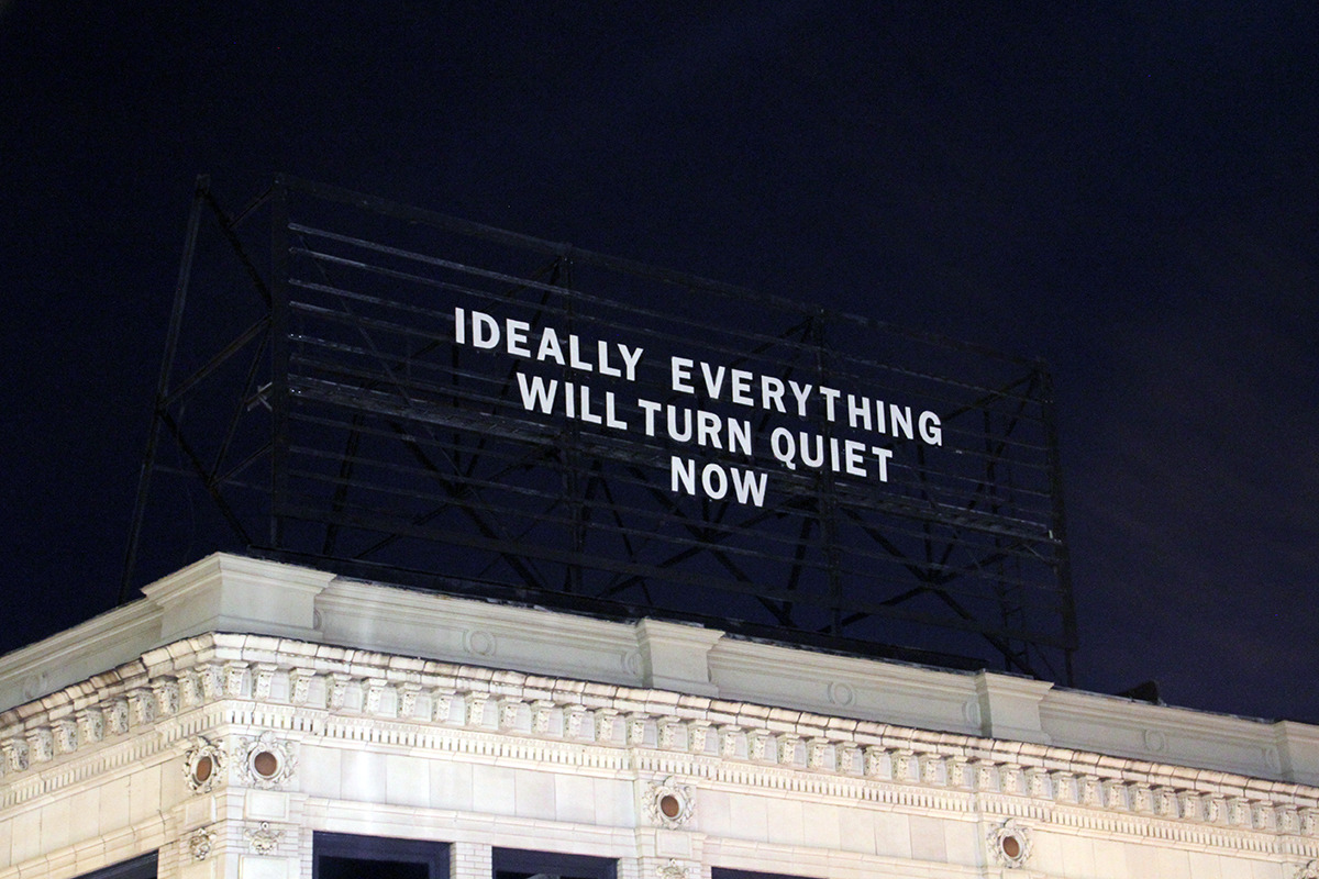 The Last Billboard, a project by artist Jon Rubin, features a text by Laure Prouvost in Pittsburgh, Pennsylvania.